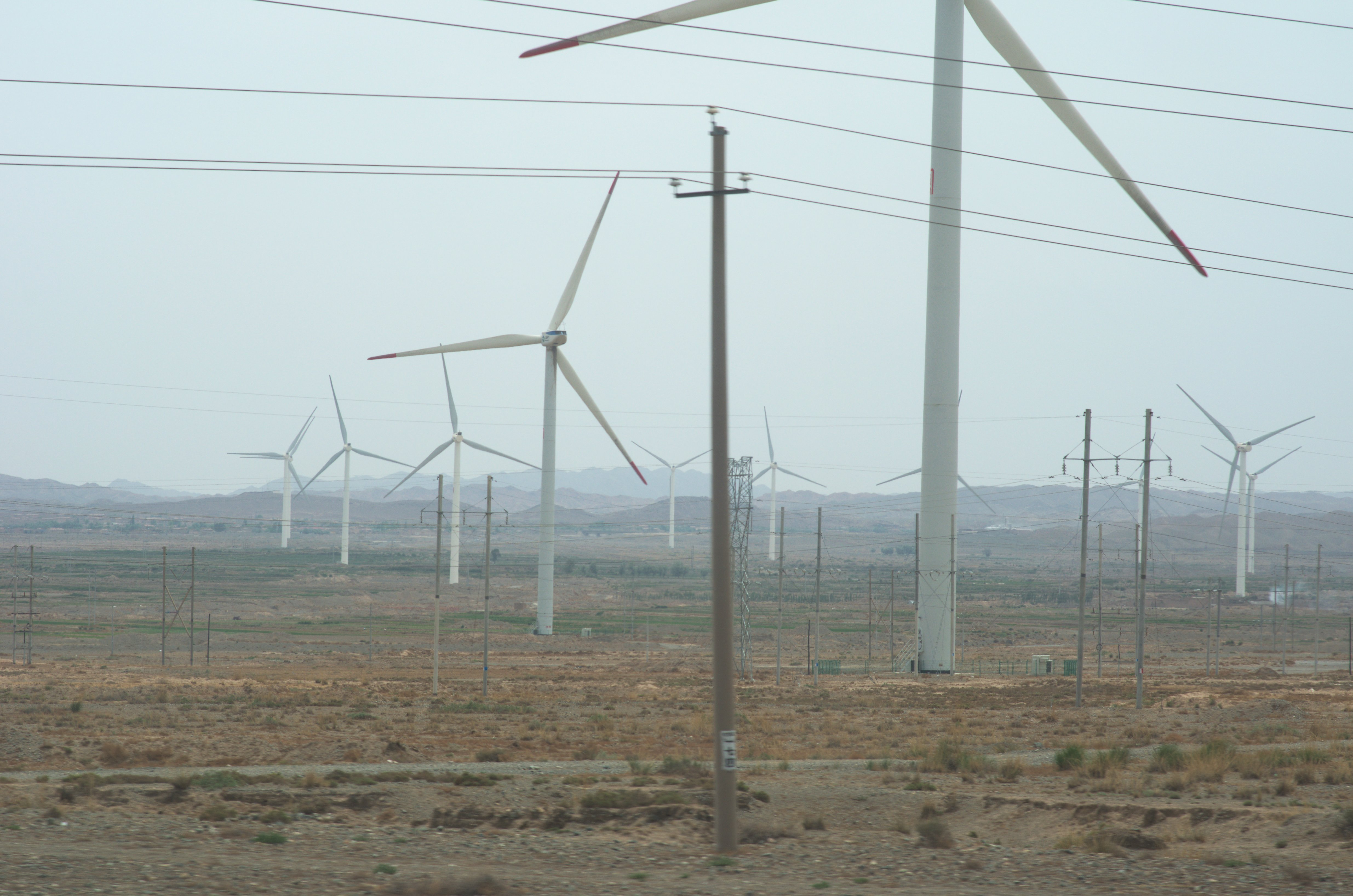 A wind-turbine field, with at least 117 ones (as I counted by adding them on Openstreetmap after bing aerial view) at Xingquanbao (兴泉堡乡), on Jingtai County, Gansu province, China.